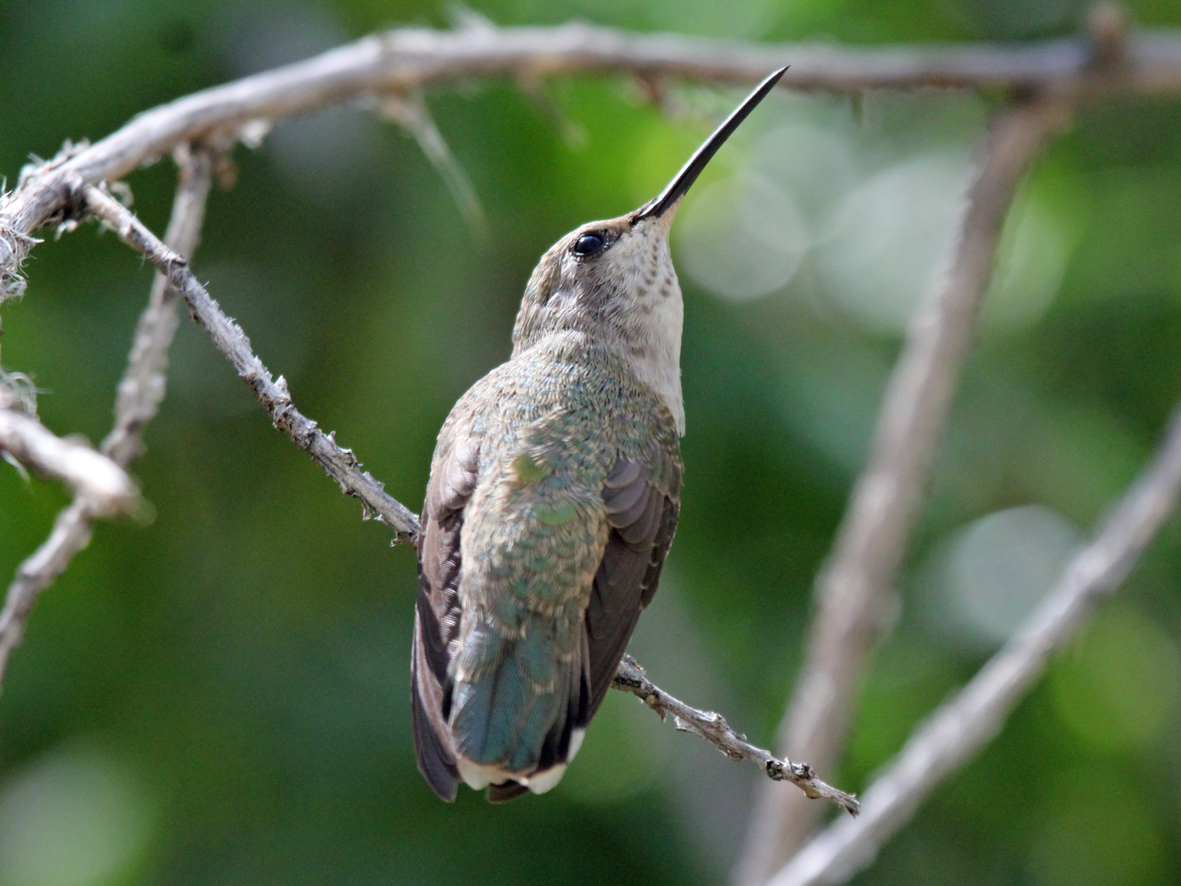 Female Costa's Hummingbird (Calypte costae) - Desert Museum aviary in Tuscon, Arizona.